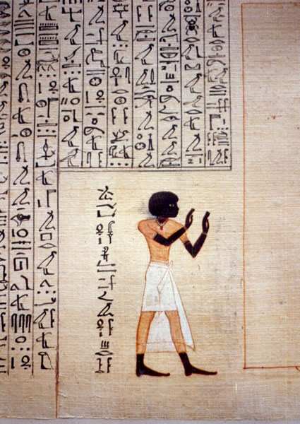 Book of Dead of Maherperi, 18th Dynasty